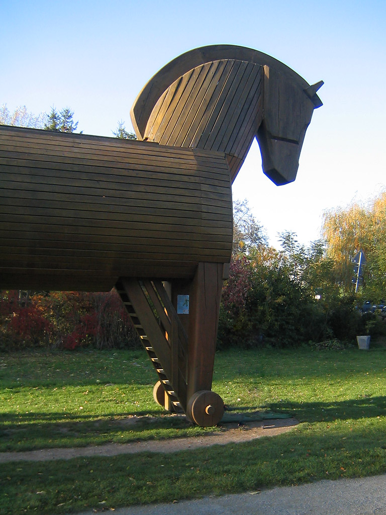 The Trojan Horse in front of the Schliemann Museum in Ankershagen.